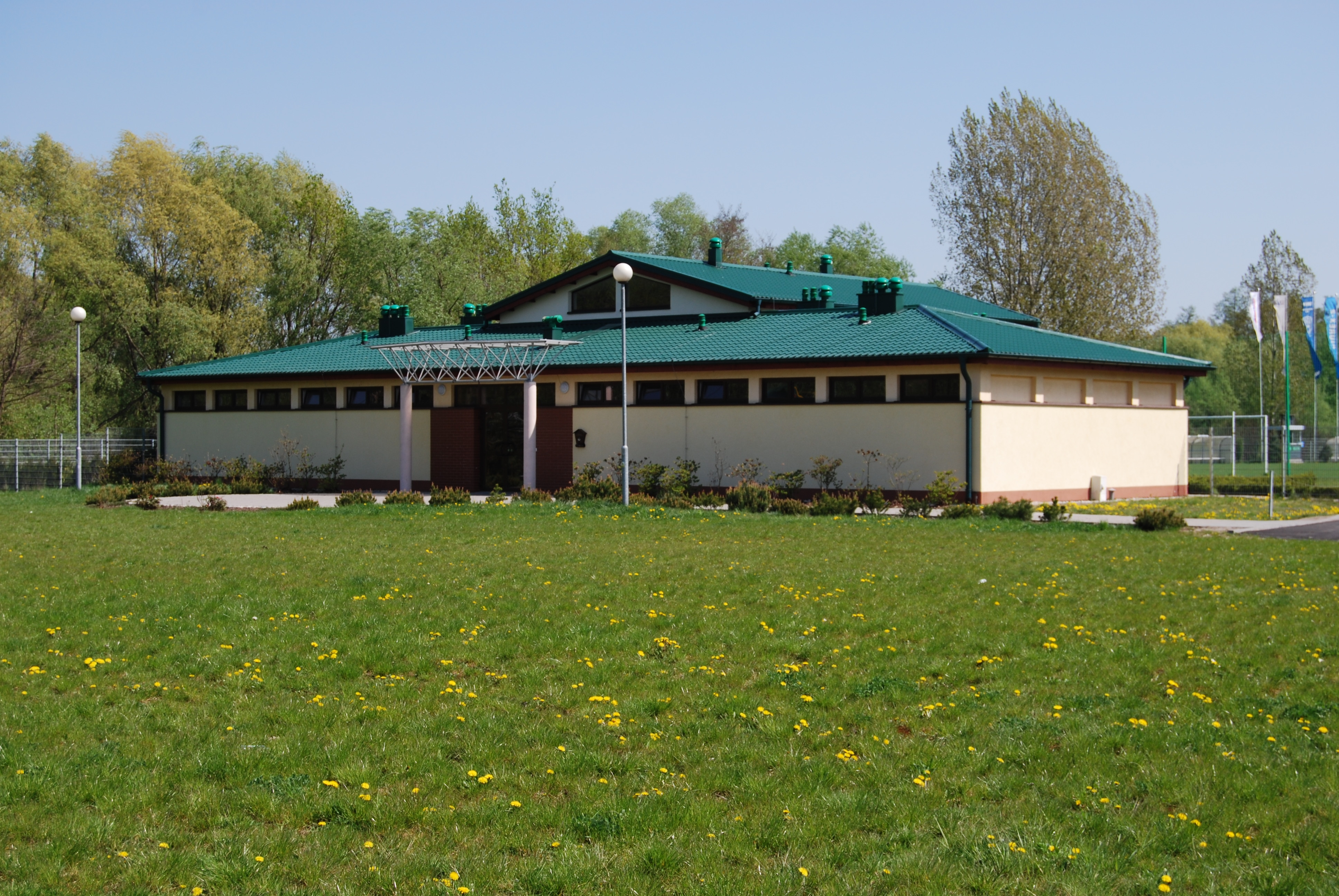 Czarnowąsy